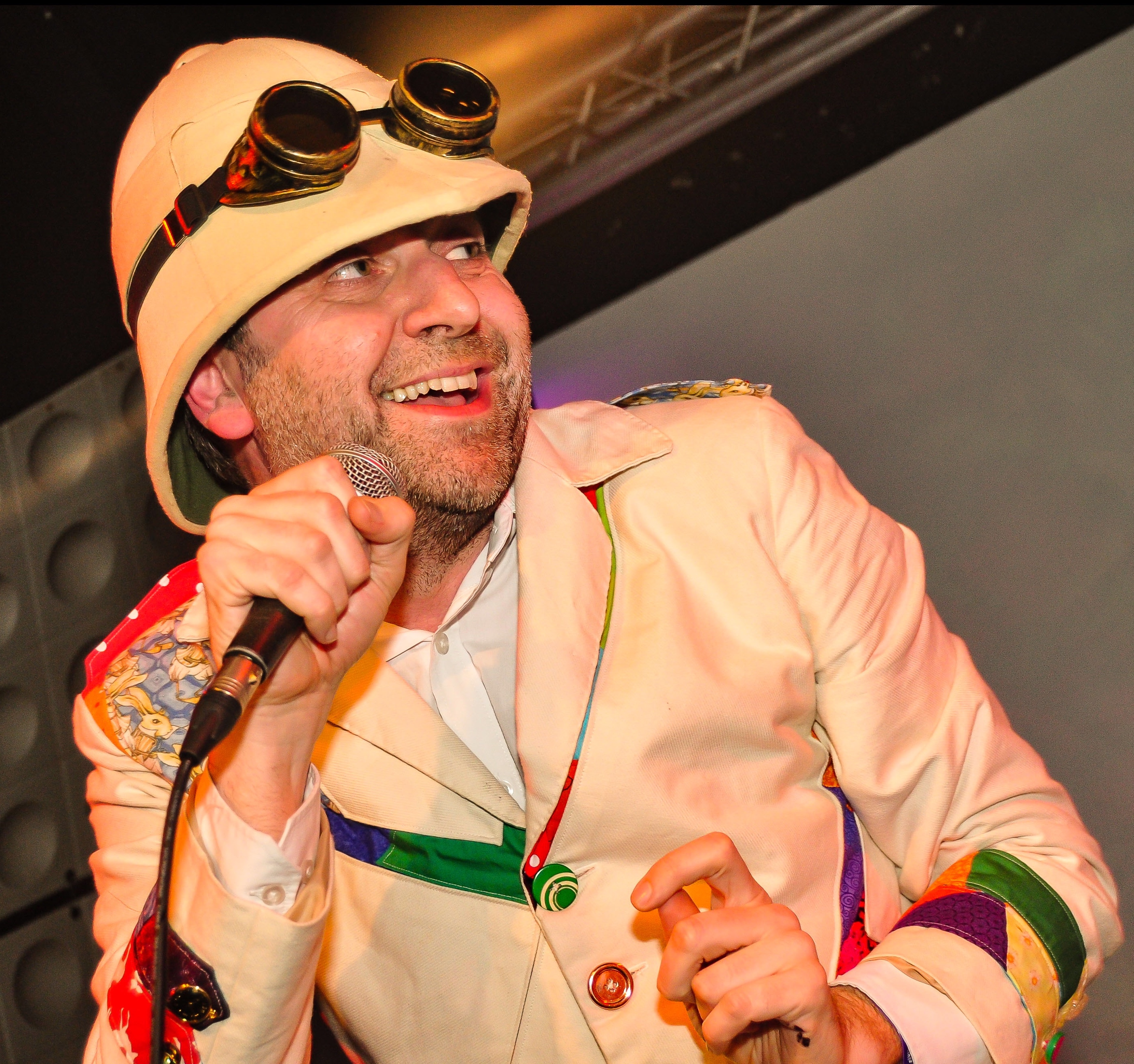 Chap hop artist, Professor Elemental, in 2018